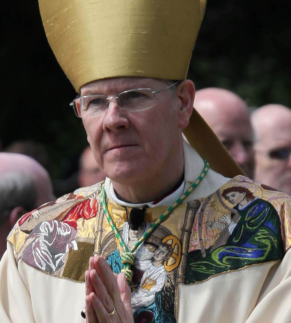 The Right Reverend Martyn Jarrett during the National Pilgrimage to Walsingham, 2012